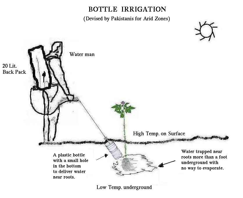 Bottle irrigation